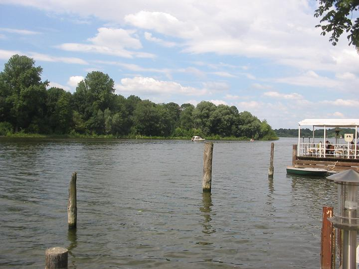 View from the Wirtshaus Schildhorn (restaurant) over the Jürgenlanke to the Schildhorn. Schildhorn (german for: shieldhorn) is a headland in the river Havel, situated in the protected area Grunewald in the homonymous quarter Grunewald of Berlins borough Charlottenburg-Wilmersdorf, Germany.